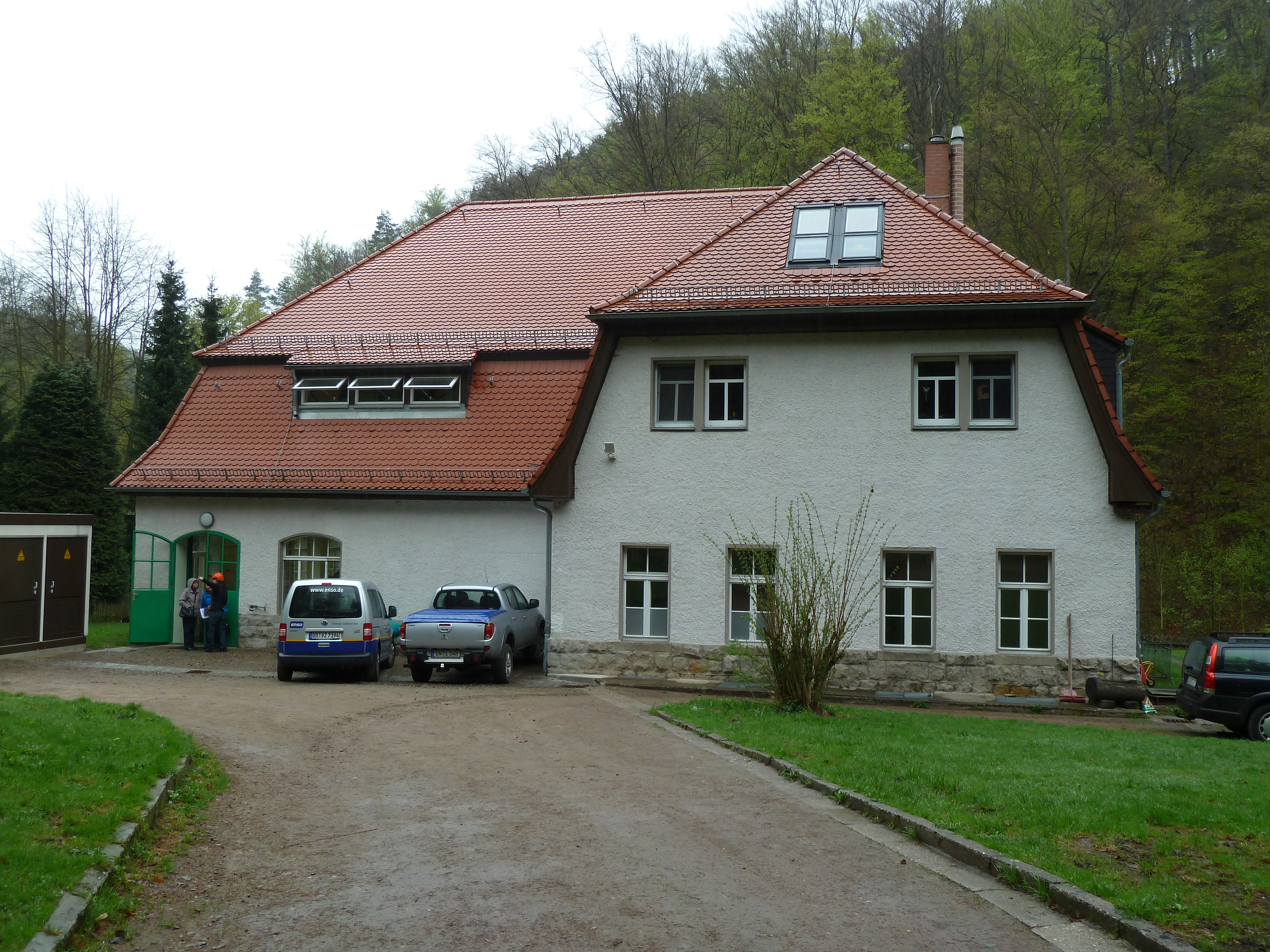 Rudelt power plant, hydro electric power plant Rabenauer Grund, Saxony; since 1911. Three generator sets. Two generator sets with a Francis turbine by Voith, Heidenheim (since 1911) and a synchronous generator by Poege, Chemnitz (1911–2012), replaced by an AEM Dessau generator. Capacity of each set 500 kVA. A third generator with a capacity of 150 kVA driven by a cross-flow turbine for small quantities of water is in use since 2012. The power plant is named after Ernst Robert Rudelt, mayor of Deuben, who installed many public services in the aftermath of the industrial revolution.